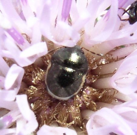 Ebony bug, Corimelaena pulicaria. Peace Valley Nature Center, Bucks County, Pennsylvania, USA. 40.3400° N, 75.1717° W.